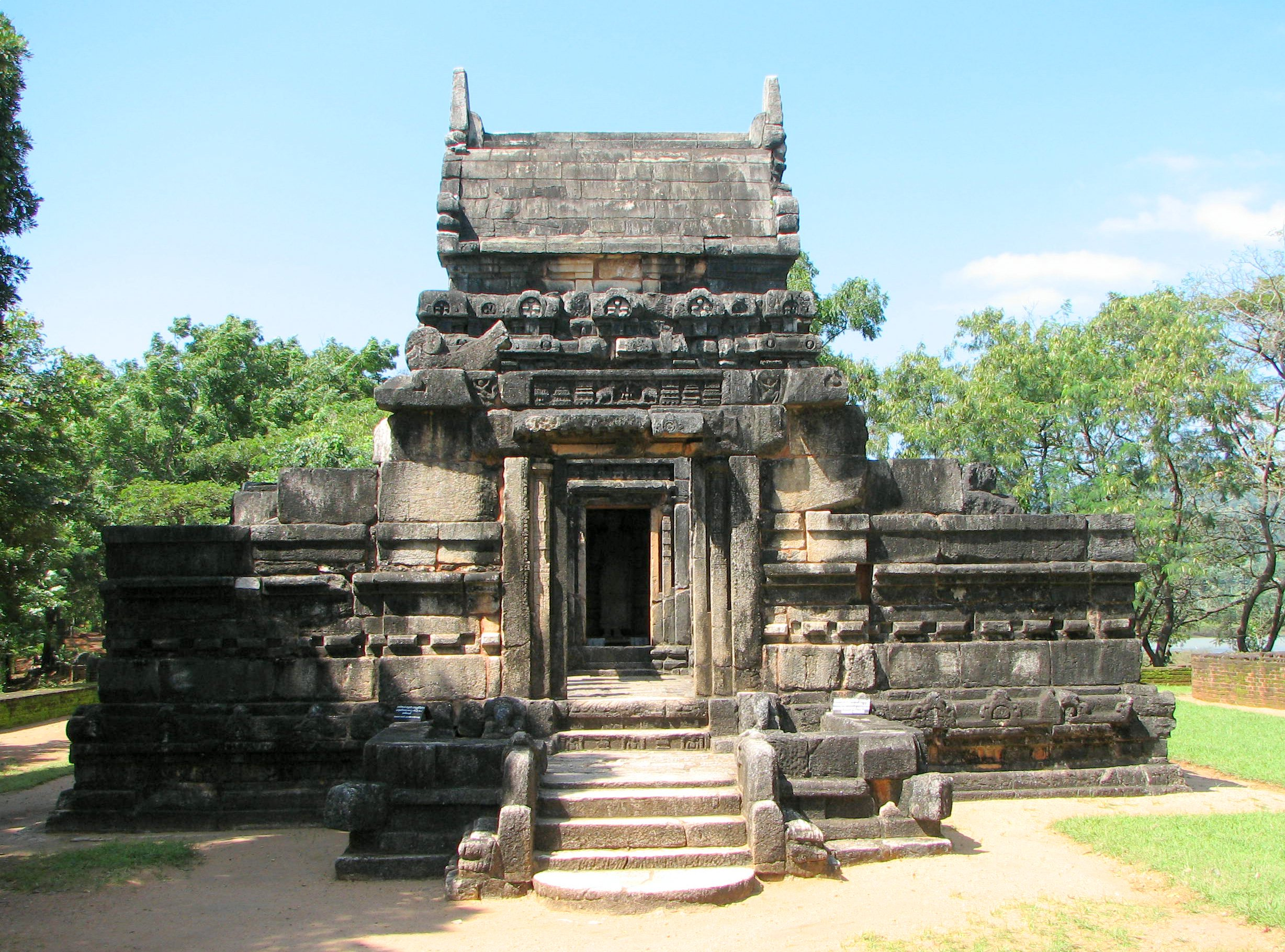 Nalanda Gedige temple, Sri Lanka